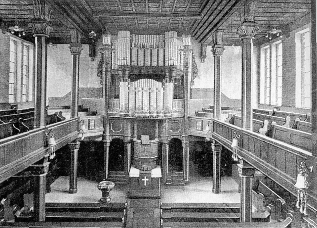 Interior Johanniskriche, Barmen, Photo (1872)